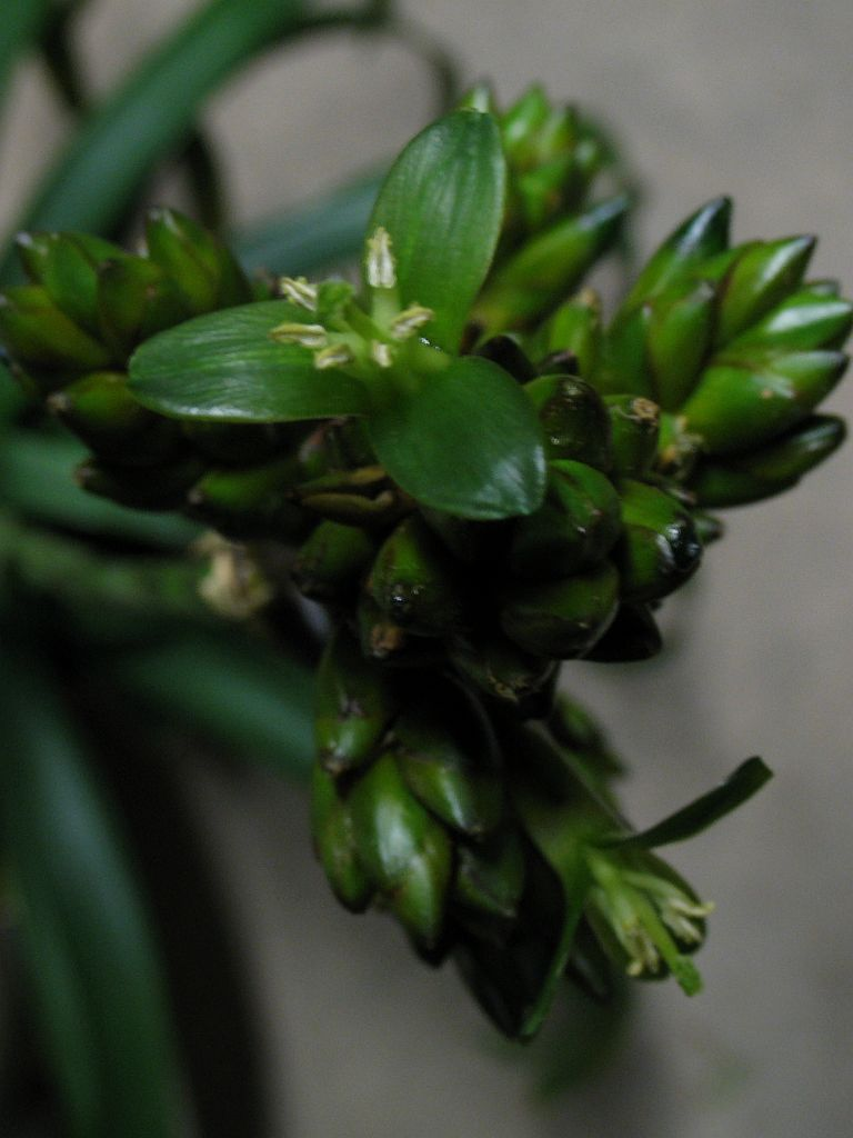 Guzmania alliodora, in cultivation at the Botanical Garden of Heidelberg, Germany. Flowers fully opened after midnight.